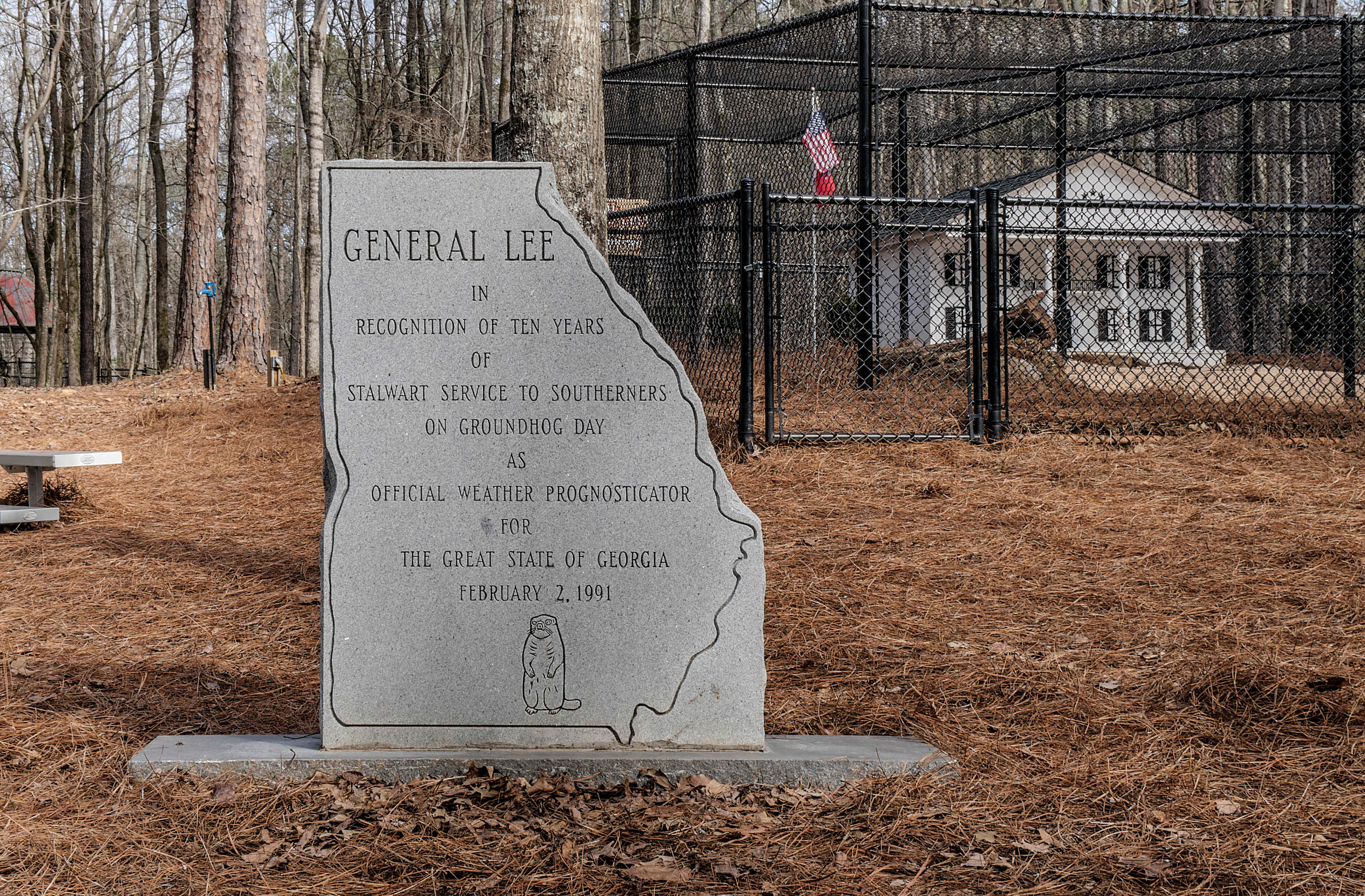 General Beauregard Lee info sign and exhibit